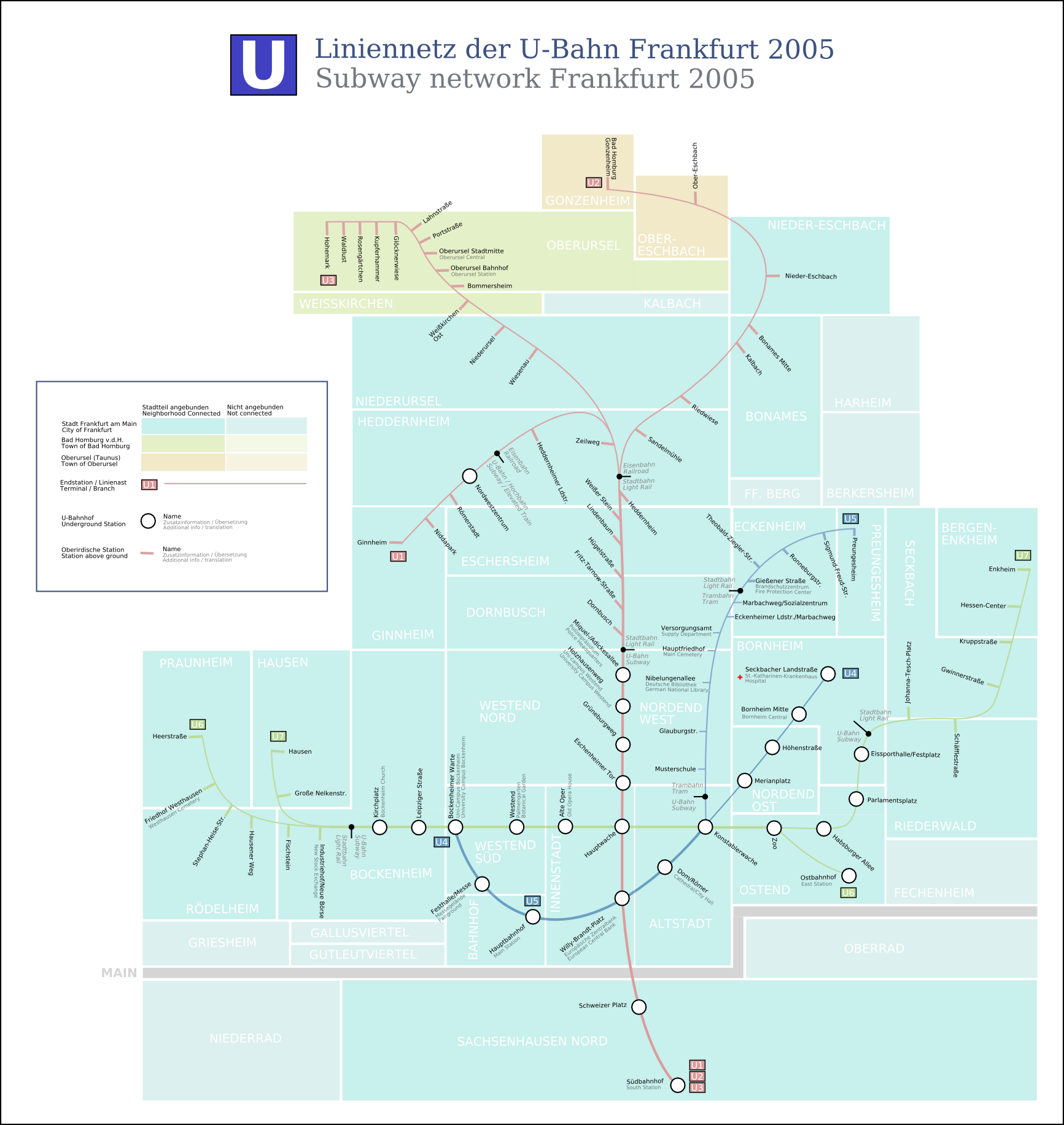 Subway network map with neighborhoods in Frankfurt am Main and additional information. State of the map is 2005.